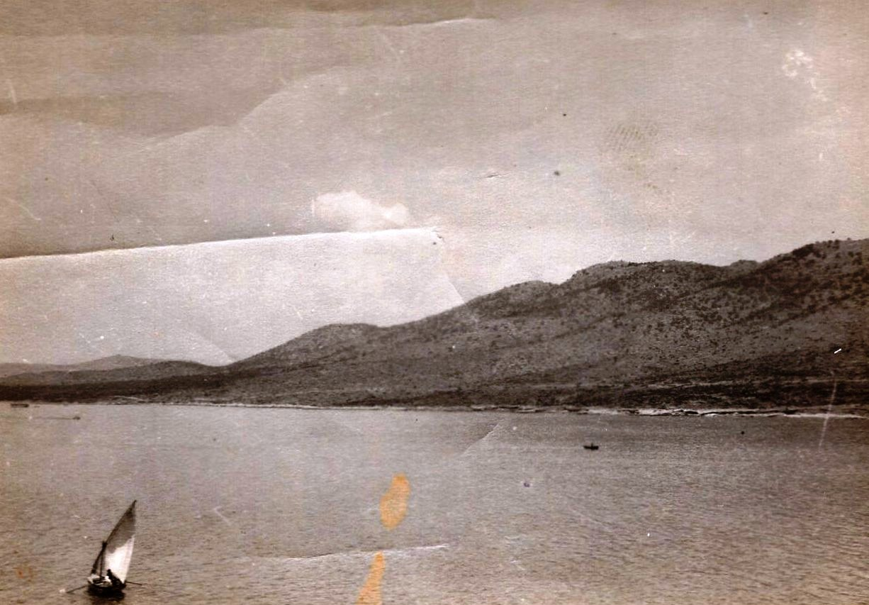 Lake Vegoritida, photographed around 1916 This media file is produced by Wikipedian in Residence in Category:Wikipedian in Residence at DARM in 2016.